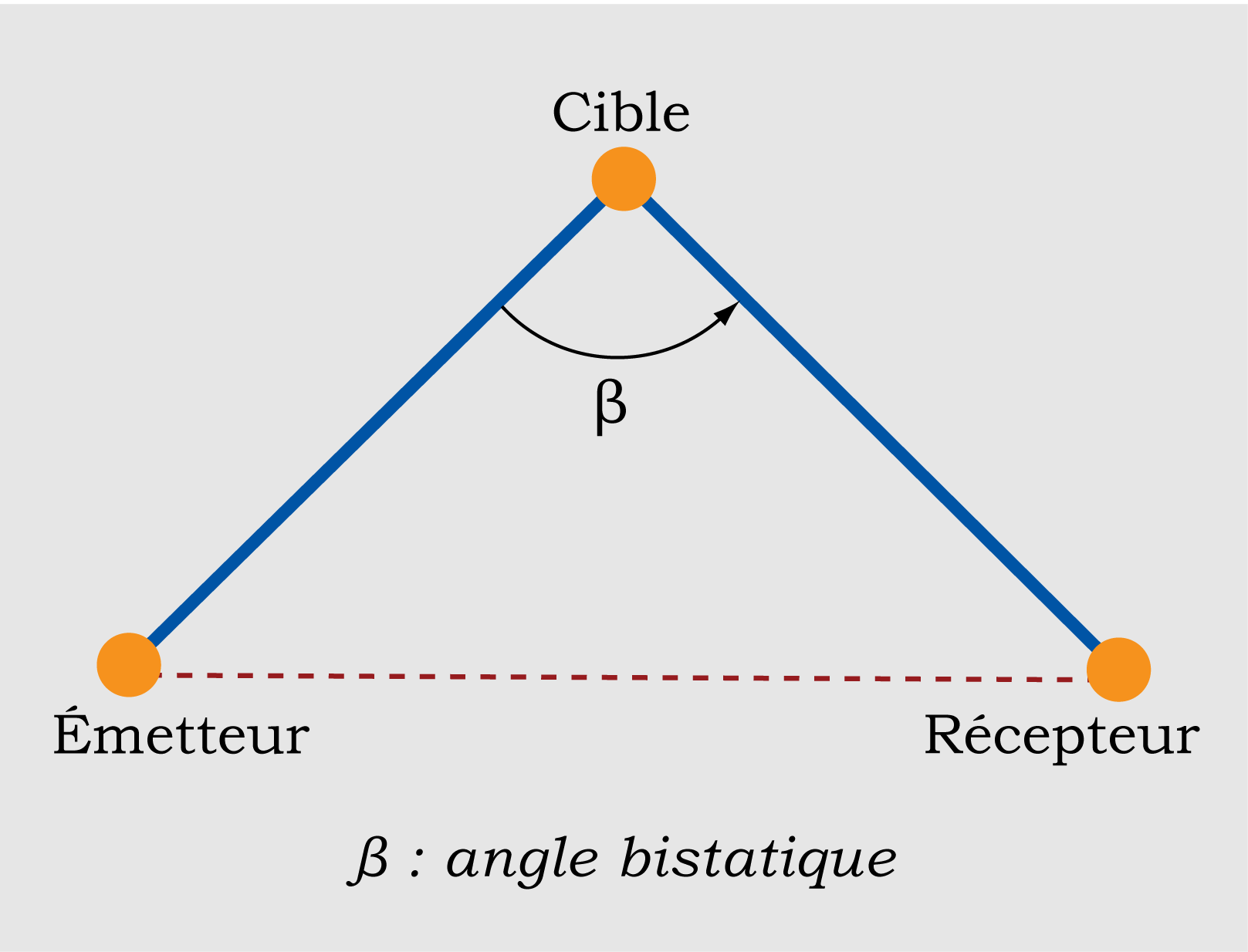 Scheme to explain the bistatic angle.